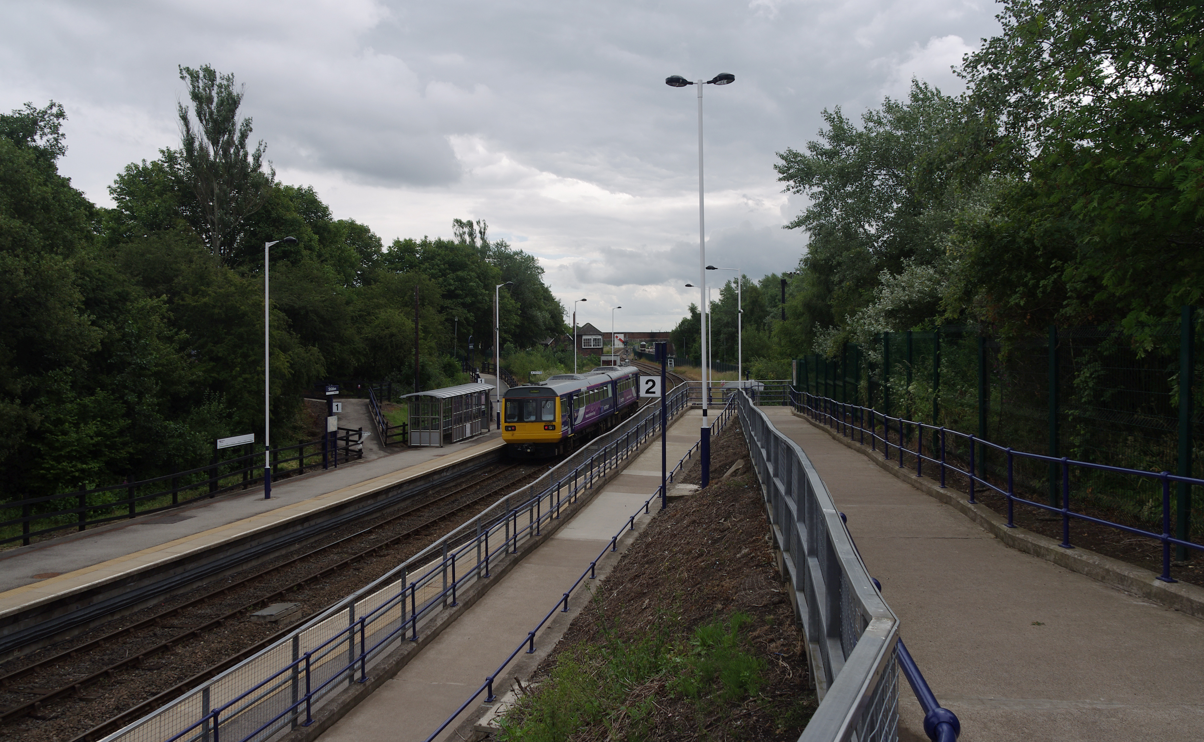 Northern Rail Pacer DMU 142023 at Shildon railway station with a service to Saltburn.